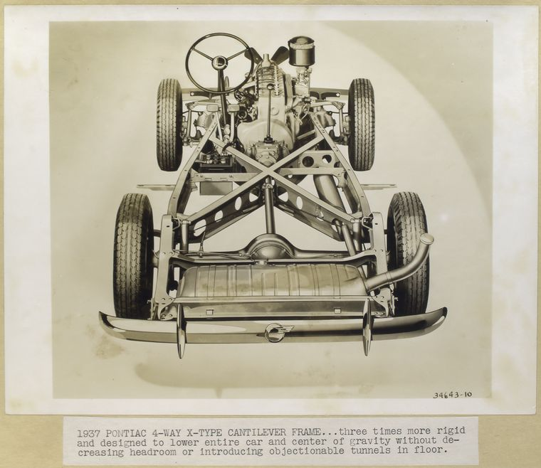 Digital ID: 481844 Source: Photographs of General Motors and Chrysler car and truck models, 1902 - 1938. / General Motors Company. Chevrolet - Pontiac 1912-1938 Photographs. ( Repository: The New York Public Library. Science, Industry and Business Library. General Collection Division. See more information about and others at Persistent URL: Rights Info: No known copyright restrictions; may be subject to third party rights (for more information